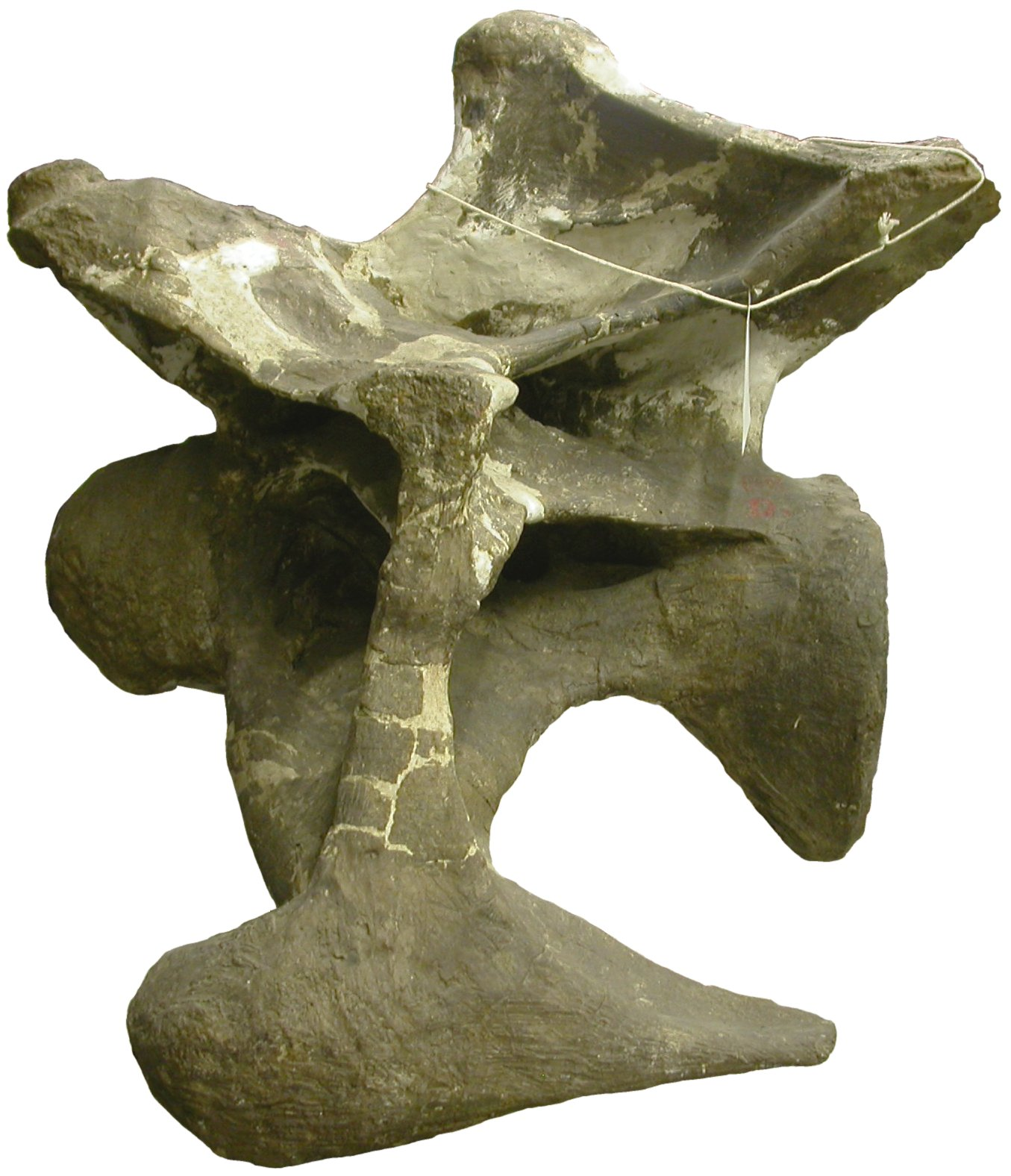 Holotype of Apatosaurus ajax YPM 1860 cervical in lateral view.